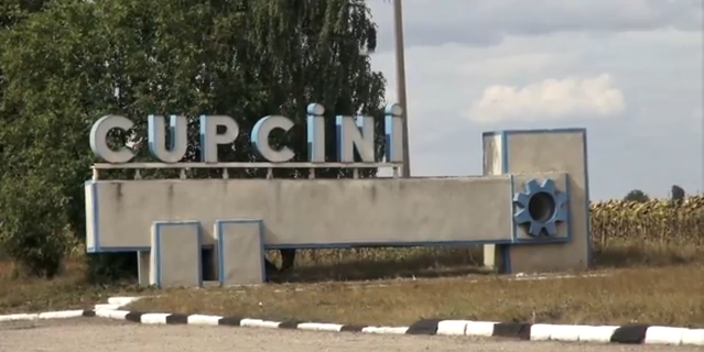 Welcome to Cupcini